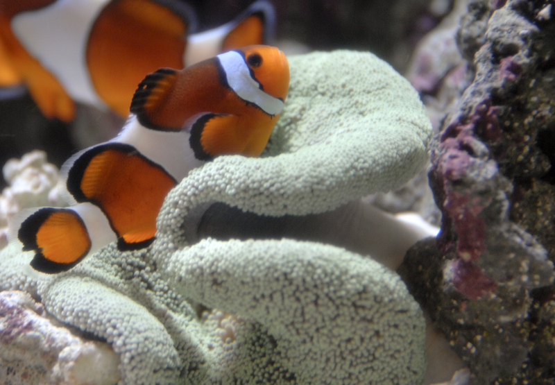 Clown fish taking safety in a Sea Anenome.